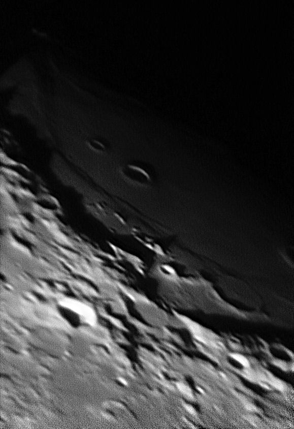 This image was taken through a 6-inch reflector telescope and a Canon EOS 450d DSLR camera. Dorsum Oppel is clearly visible due to the low angle of light and shadows.